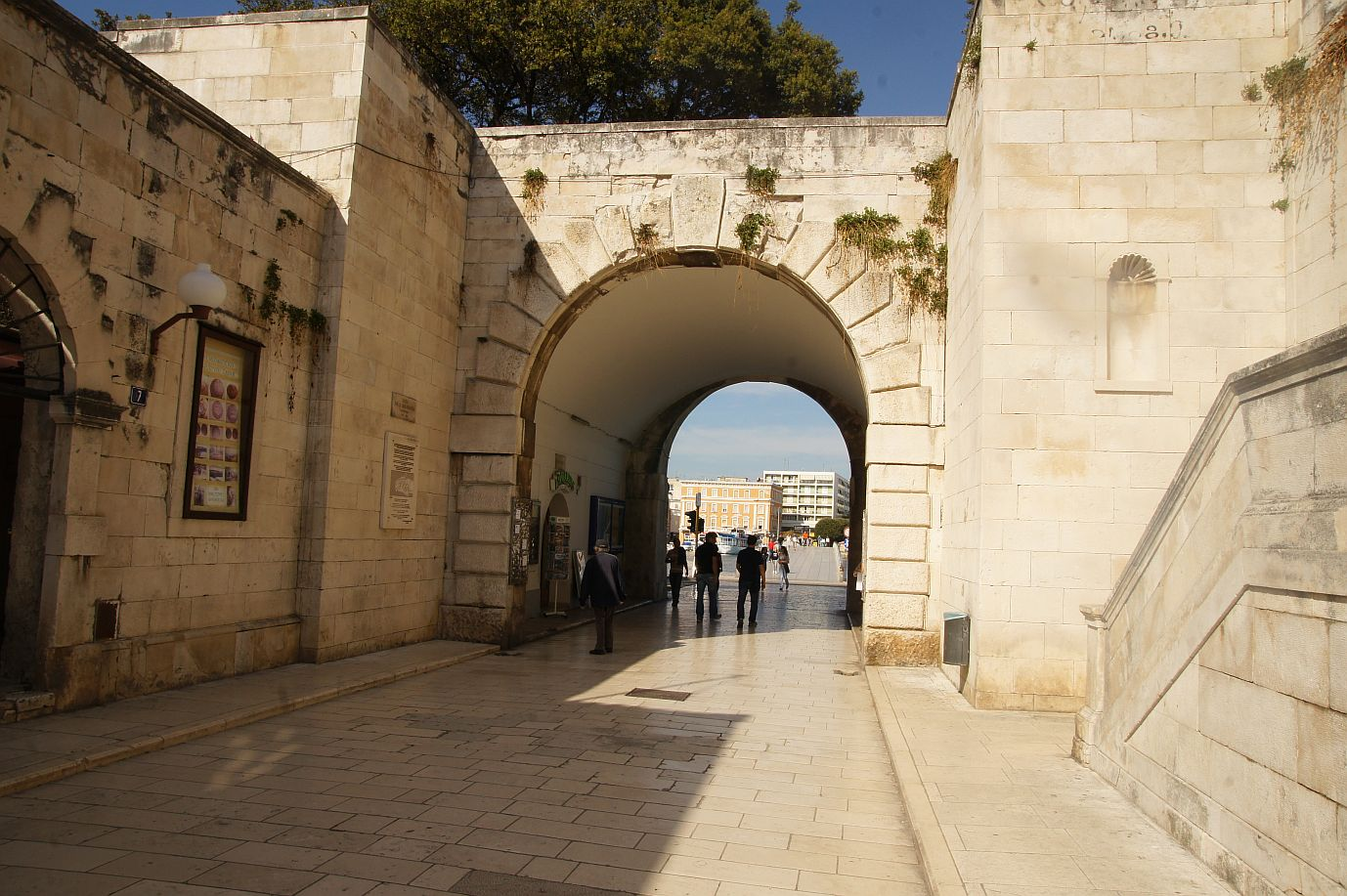 City gates